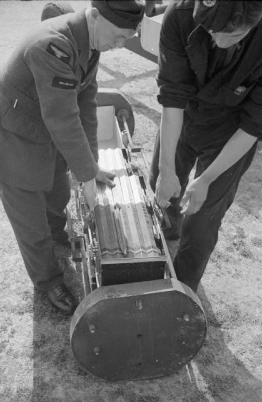 IWM caption : Armourers preparing fire-bombs at Marham, Norfolk. Here, two airmen place the tinned plate case of 4-lb incendiaries into a Small Bomb Container (SBC). The lifting handles, when reversed, secure the case in the container.